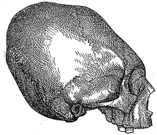 Flathead (Chinook) skull